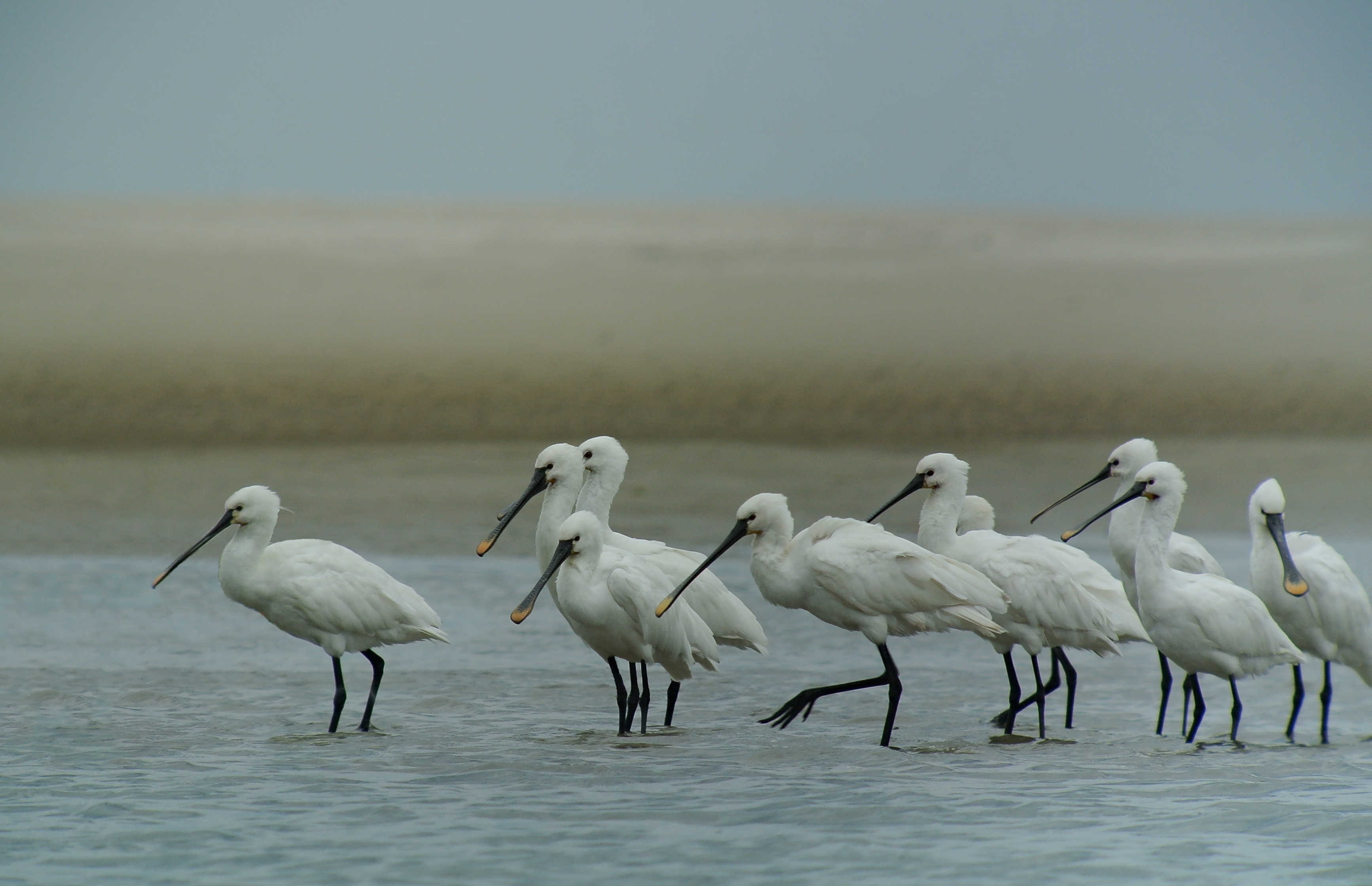 Eurasian Spoonbills resting in a shallow coastal lagoon on the Dutch Waddenzee island of Schiermonnikoog. Special Protection Area NL9801001 - Waddenzee Digiscoping with Swarovski ATM 80 HD 30 X, Nikon 1V1 + 10-30 mm lens (Adapter DCB)